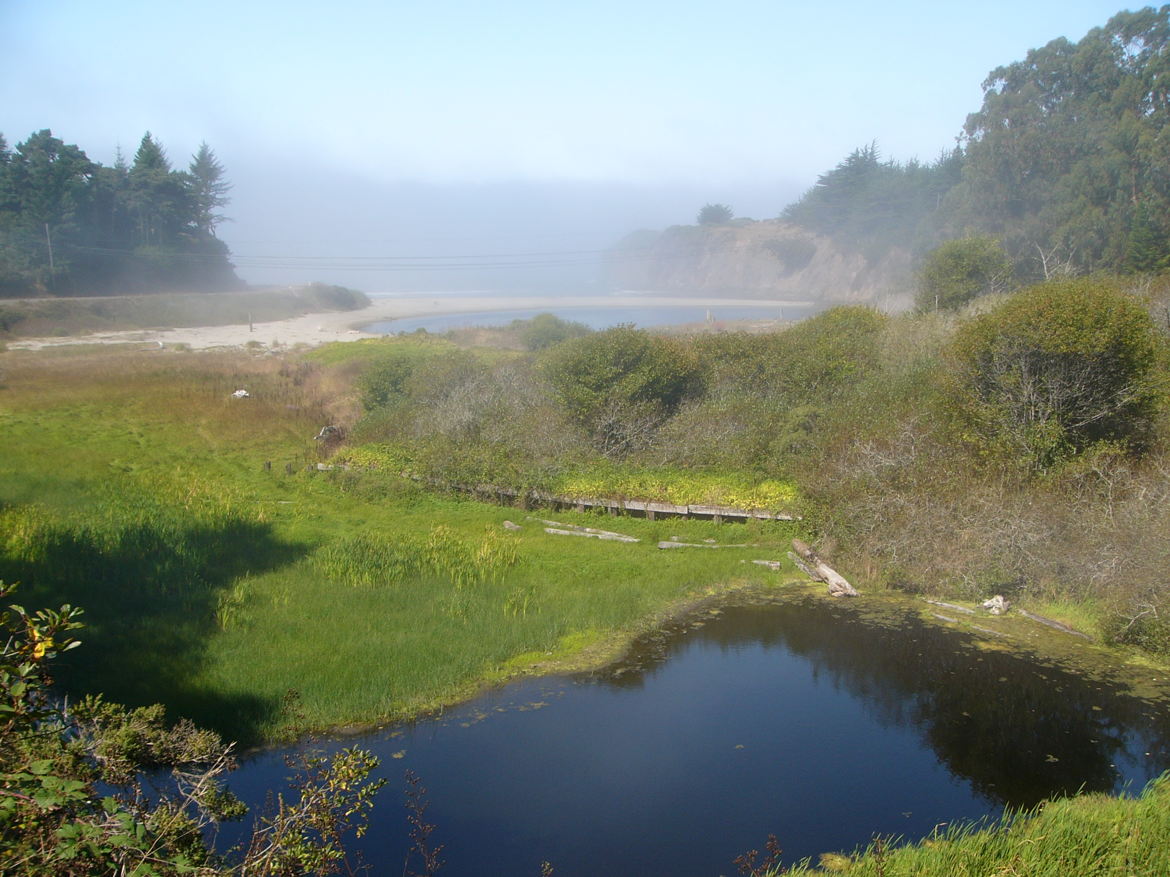 Estuary wetlands and lagoon at river's mouth, at abandoned Caspar mill site, in Mendocino County, Northern California.